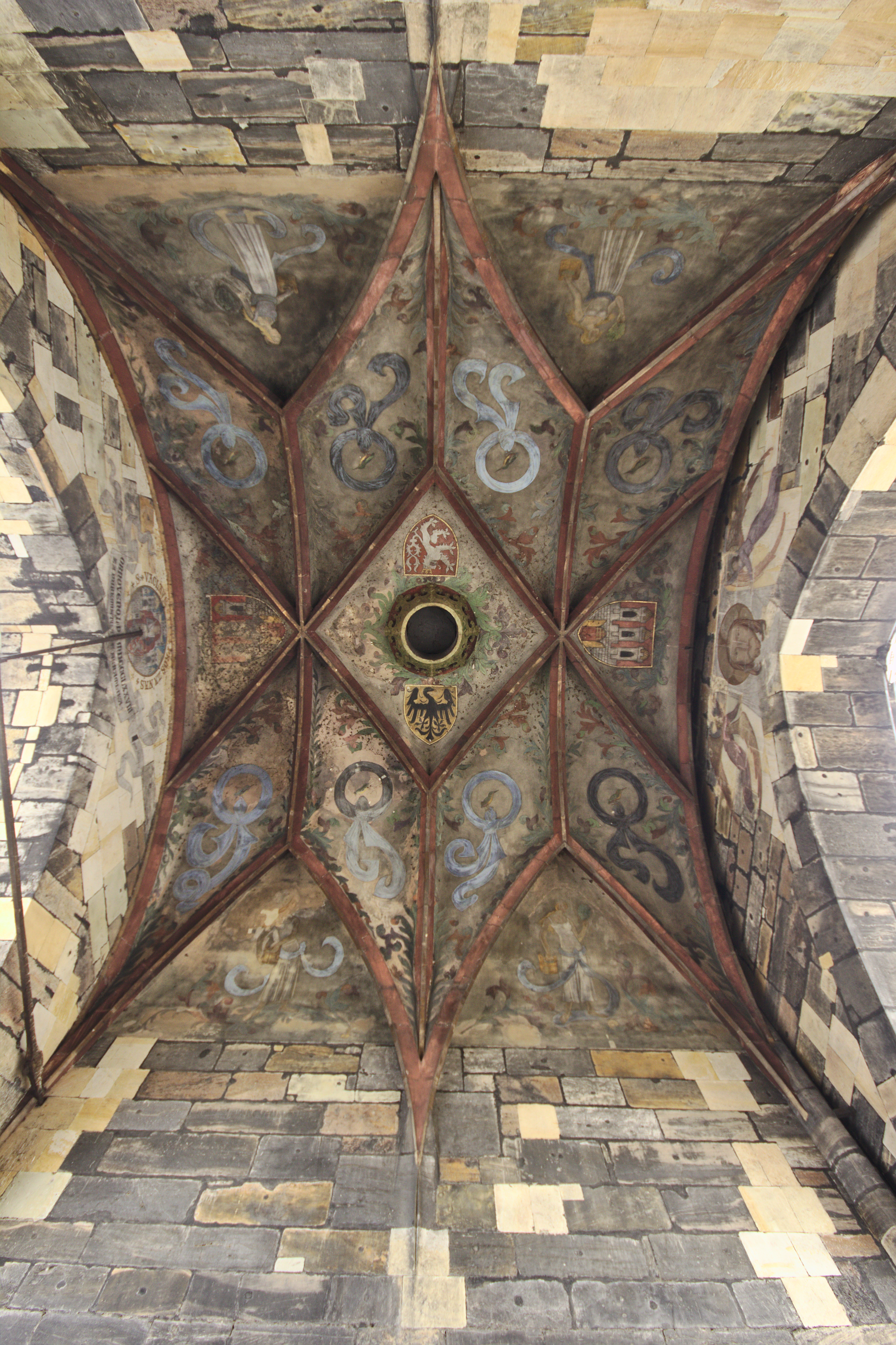 A view from directly underneath the Staroměstská mostecká věž (Old Town Tower) on the Charles Bridge in Prague